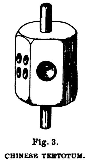 Image of a Chinese teetotum in the museum of the University of Pennsylvania.